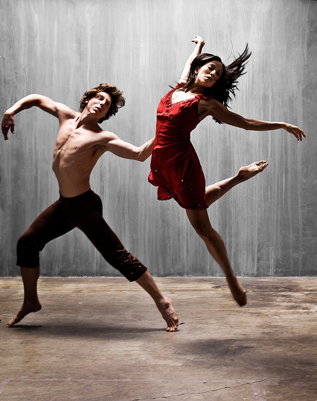 Greg Sample and Jennita Russo of Deyo Dances performing in the modern ballet Brasileiro.